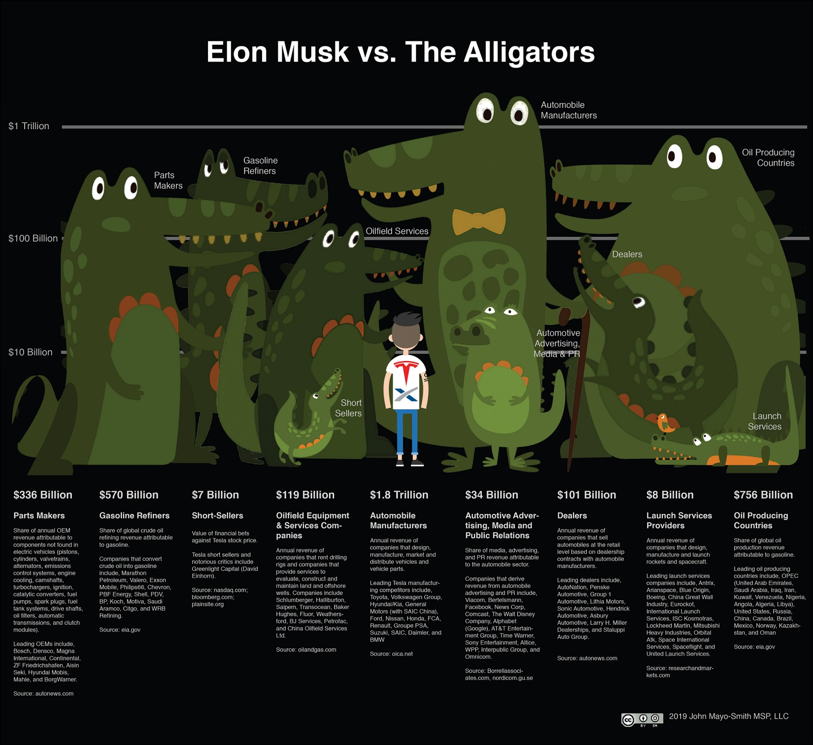 The graphics shows on one side Elon Musk and his enterprises Tesla and SpaceX and on the other side his "alligators" (concurrence enterprises which are long standing in specific business niche and are aggressive where their interest are touched).